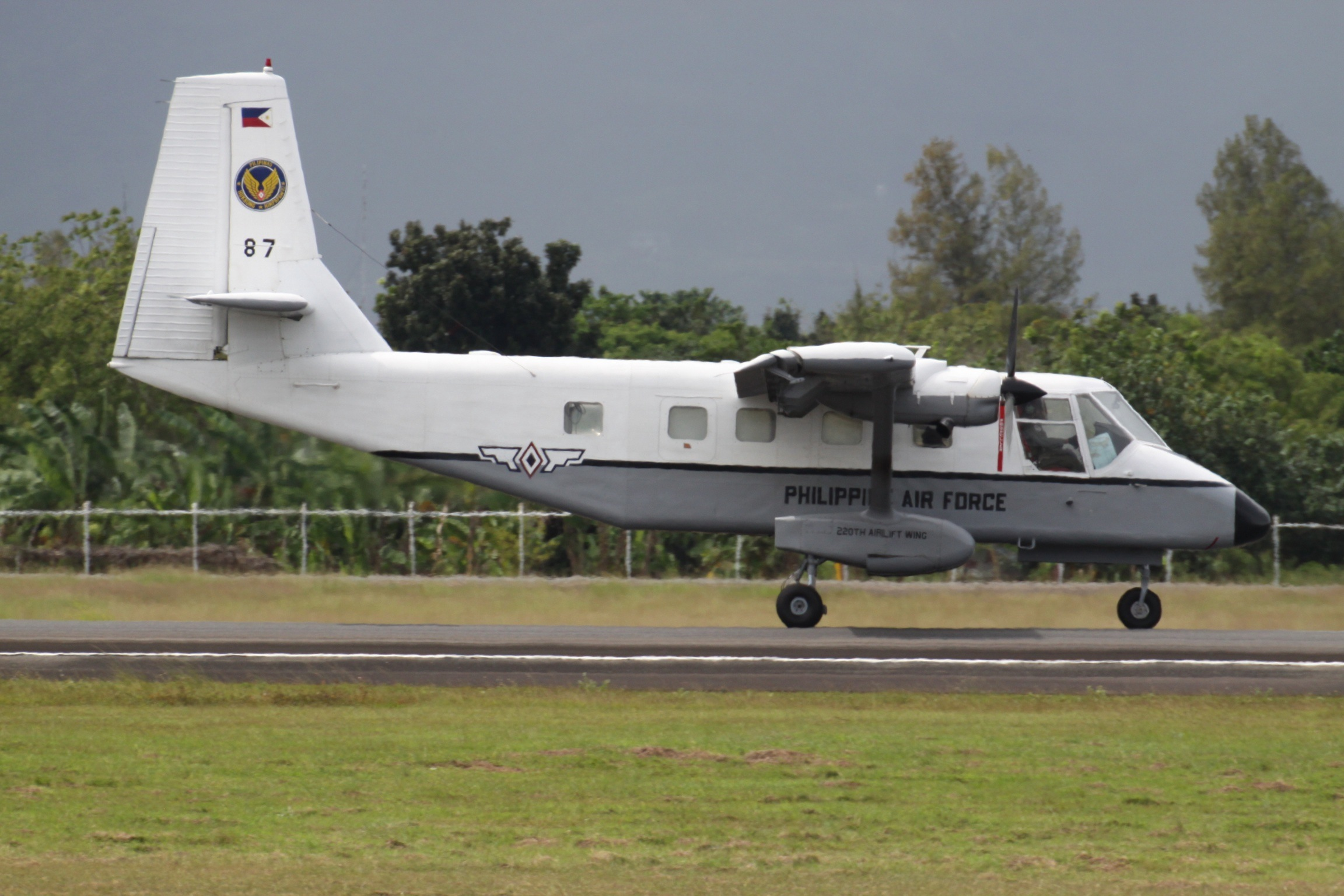 87 GAF Nomad 22SL Philippine Air Force at Mactan-Cebu International Airport